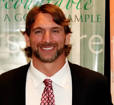 Aaron Kampman on April 20, 2012 at Drake University to receive the Robert D. Ray Pillar of Character Award.